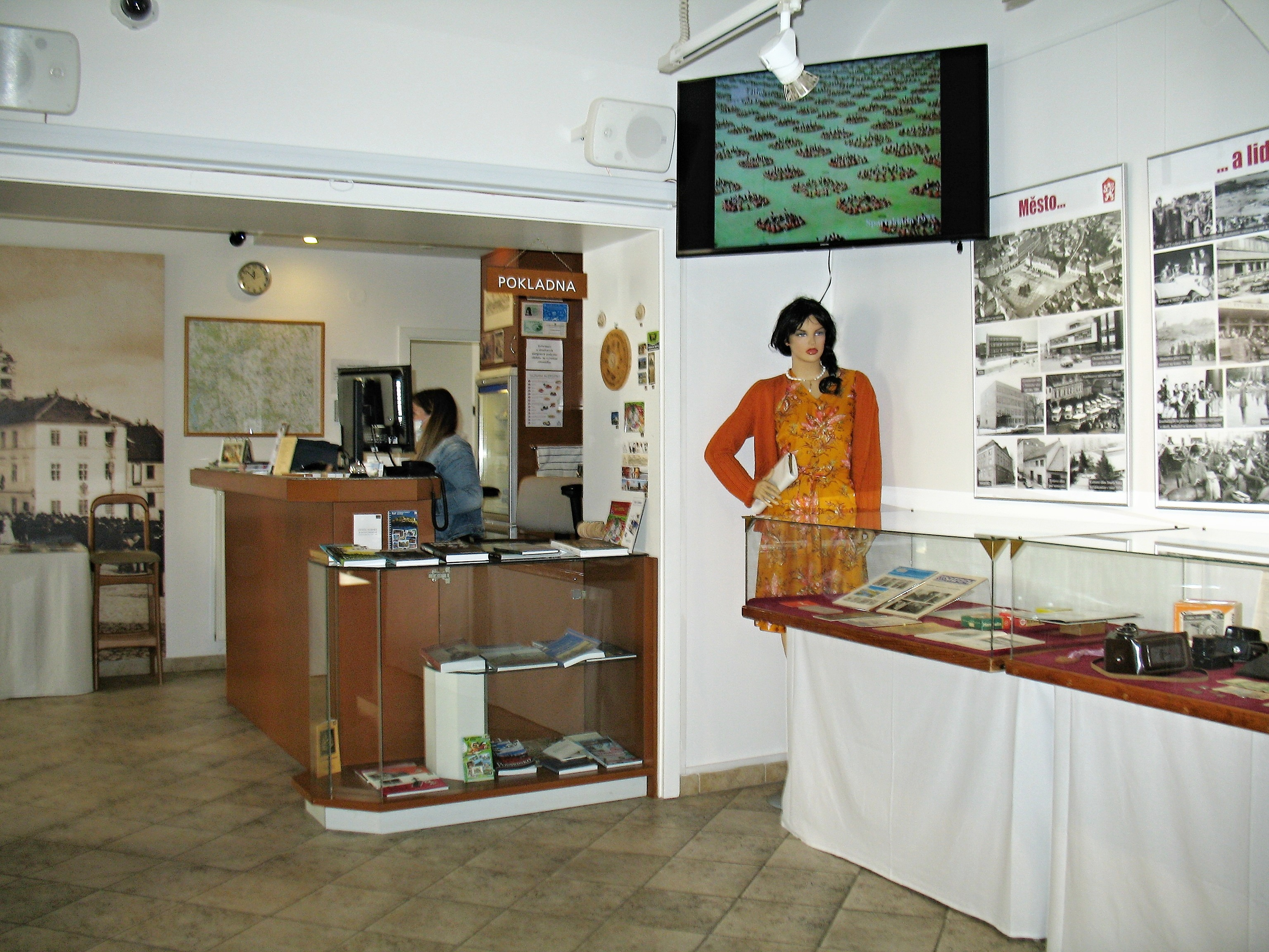 Exhibition „Generace X: Jak žily Husákovy děti?“, museum in Sedlčany, Příbram District